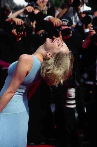 Sharon Stone at Cannes